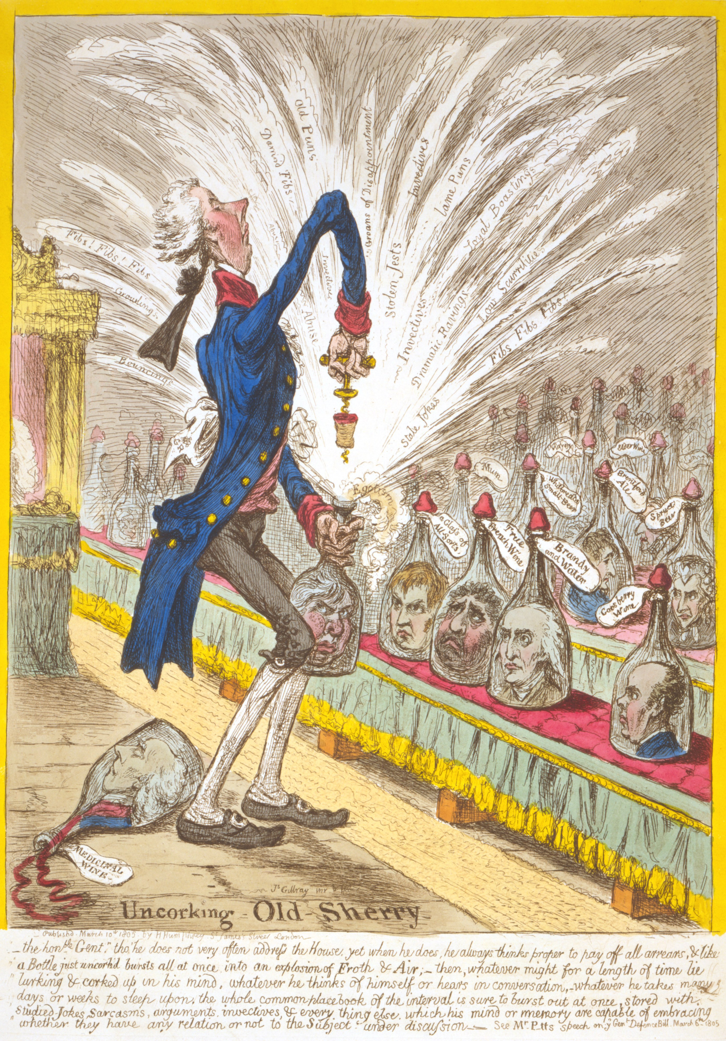 Uncorking Old Sherry / Js. Gillray, inv. & fecit. William Pitt stands in the House of Commons, facing the opposition which is represented by bottles containing the heads of the most well-known opposition leaders including Fox, Tierney, Windham and Grey. At Pitt's feet is a bottle containing the head of Sidmouth. Pitt is uncorking a bottle containing the head of Sheridan, the contents of which spray up and on which appear inscriptions describing excessive oratory, apparently by the opposition. This was one of the most popular of Gillray's political prints. 1 print : etching, hand-colored. Caption reads: Published March 10 1805 by H Humphrey. St James Street London the honble Gent. tho' he does not very often address the House, yet when he does, he always thinks proper to pay off all arrears, & like a Bottle just uncorked bursts all at one into an explosion of Froth & Air;—then, whatever might for a length of time lie lurking & corked up in his mind. whatever he thinks of himself or hears in conservation, — whatever he takes many days or weeks to sleep upon, the whole commonplacebook of the interval is sure to burst out at once, stored with studied-Jokes, sarcasms, arguments, invectives, & every thing else, which his mind or memory are capable of embracing whether they have any relation or not to the Subject under discussion - See Mr Ptts speech on y Gent Defence Bill. March 6th 1805